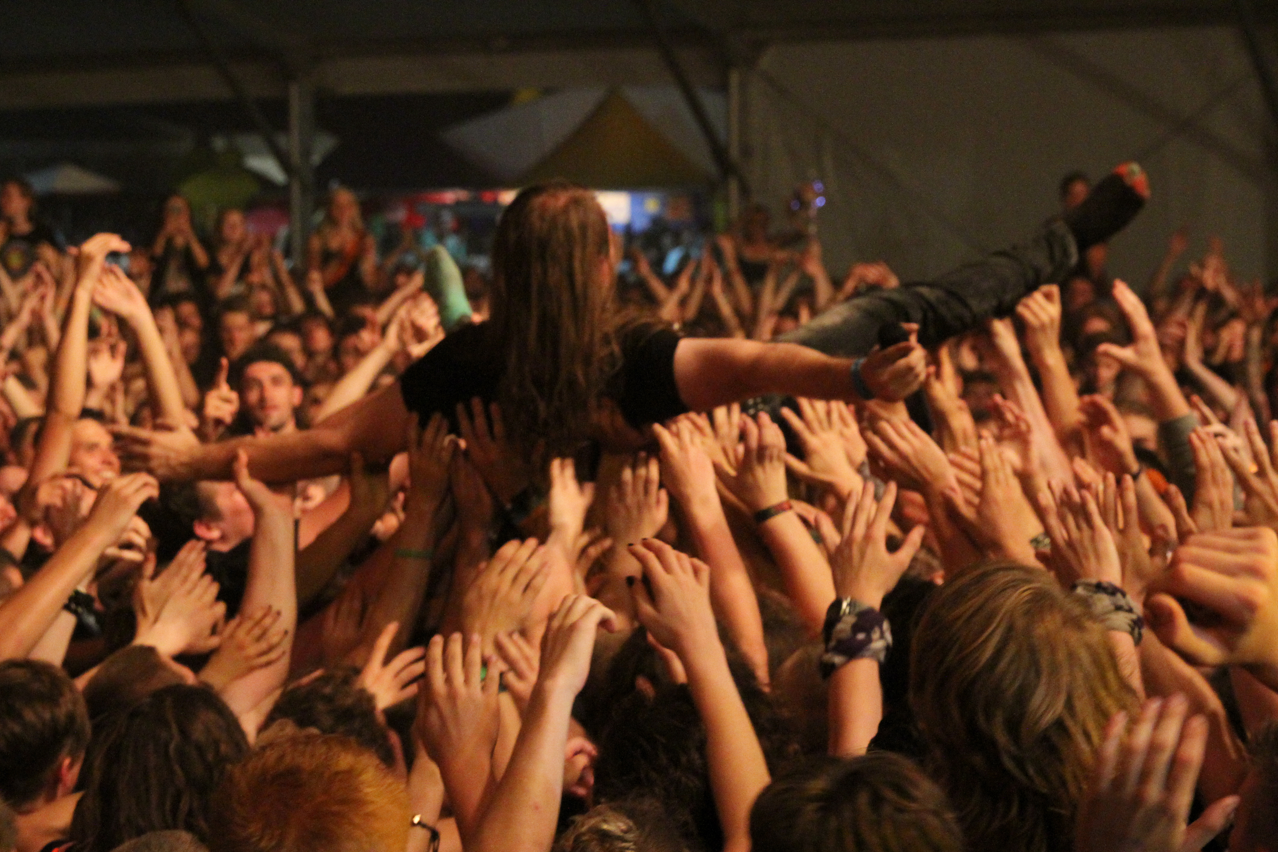 Crowd surfing at Przystanek Woodstock 2014.